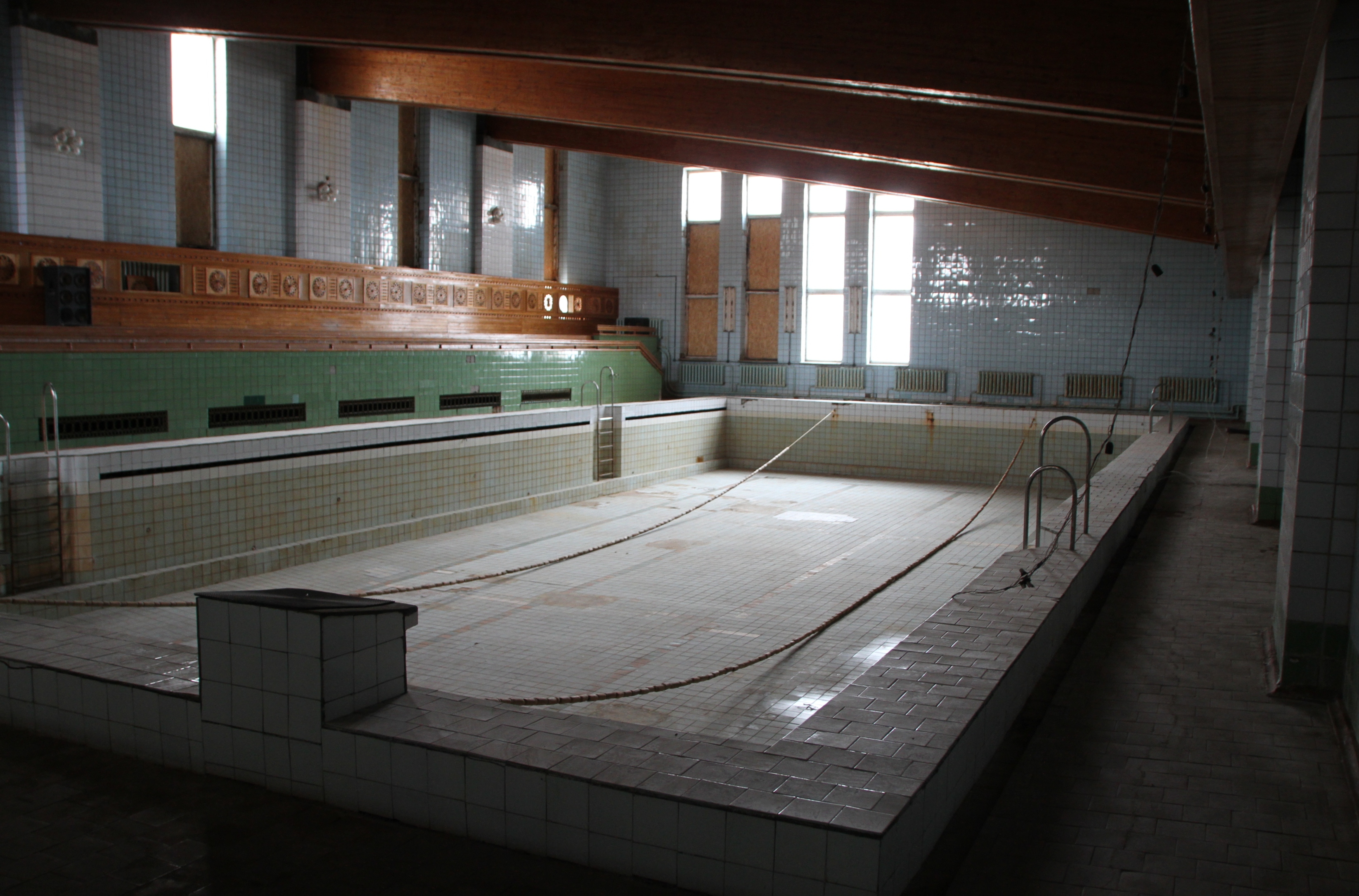 Piramida (Pyramiden9, an abandoned Sovjet-style settlement at Spirsbergen, Svalbard (Norway). The place was a coal mining community, abandones in 1998.